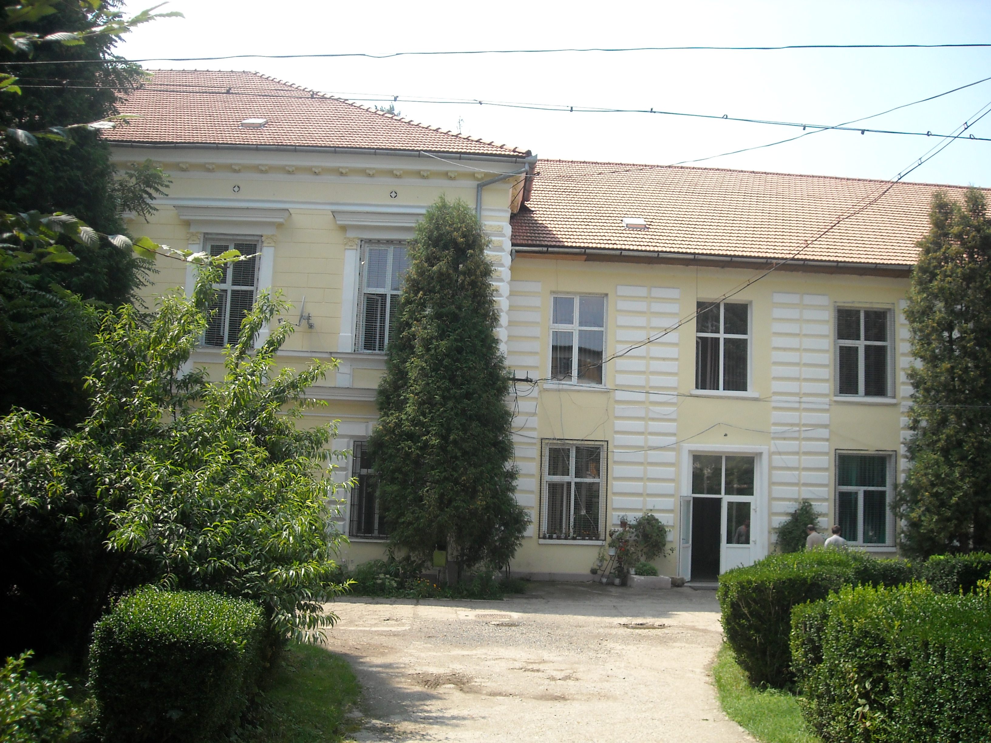 the former country mansion of the Nopcsa/Nopcea family, now psychiatry in Zam, Romania 01